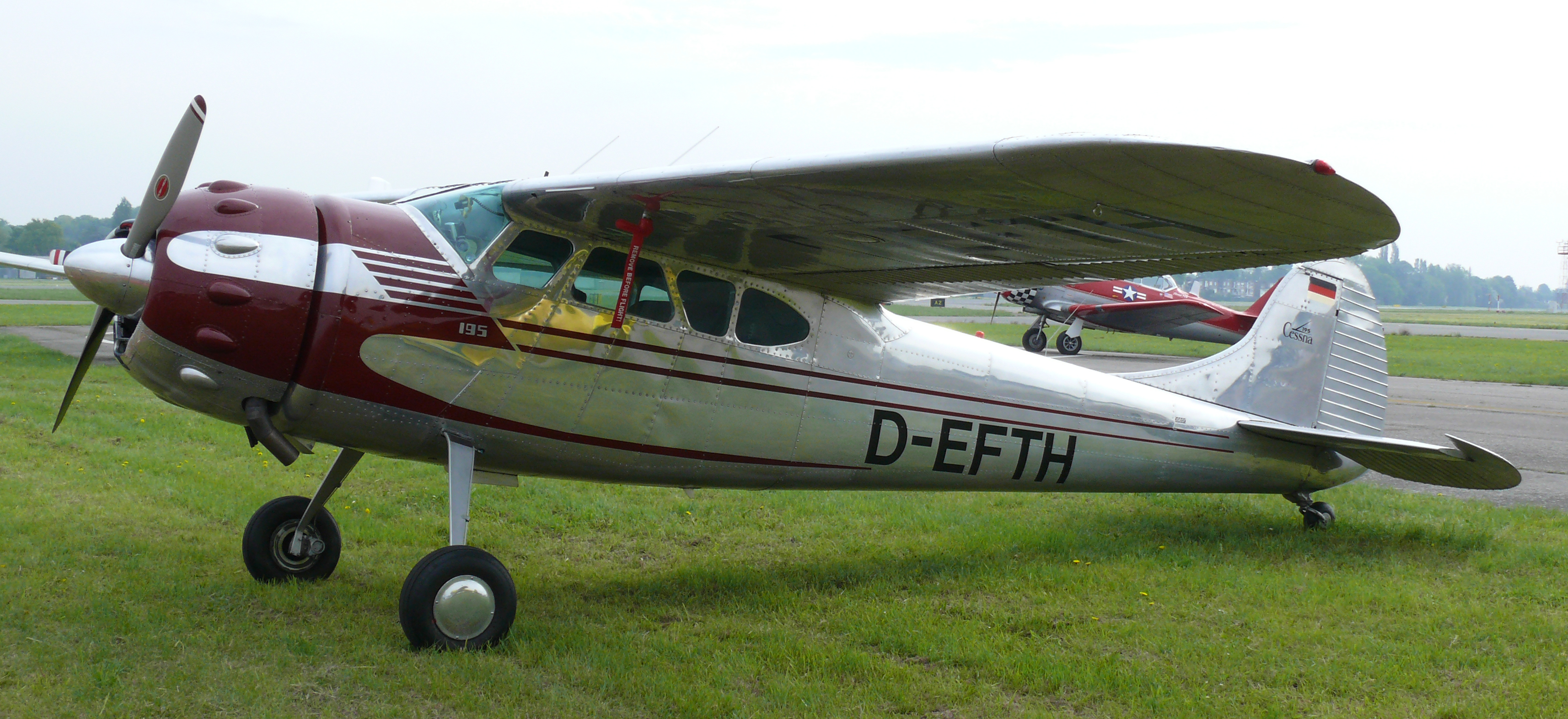 Cessna 195 D-EFTH (cn 16087) The Cessna 195 is a light single radial engine powered, conventional landing gear equipped, general aviation aircraft manufactured by Cessna between 1947 and 1954. The 195B is powered by a Jacobs R-755B2 engine of 275 hp (206 kW) and first certified on 31 March 1952. It featured flaps increased in area by 50% over earlier models.